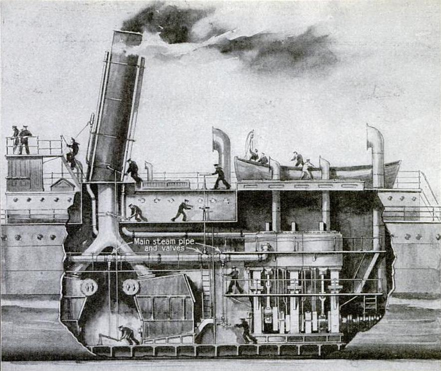 One of the major causes of death to passengers after the steamship RMS Lusitania was hit by the torpedo, was that the captain had no way to slow or stop the ship. Consequently, the lifeboats were battered on the sides of the fast-moving ship and the lifeboats overturned when they touched the ocean at high speed. The torpedo strike had either killed the ship's engineers or cut off contact with them, and there was no means for anyone else to shut down the engines. In December 1918, Popular Science Monthly reported that this problem had occurred so many times to other ships after the sinking of the Lusitania, that the British Board of Trade suggested that every passenger-carrying ship be provided with some means of stopping the engines from the deck or skylight hatchway. The magazine illustrated several such possible remote valve control methods to cut off engine steam from multiple locations.